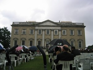 Speech Day 2004 at Claremont House